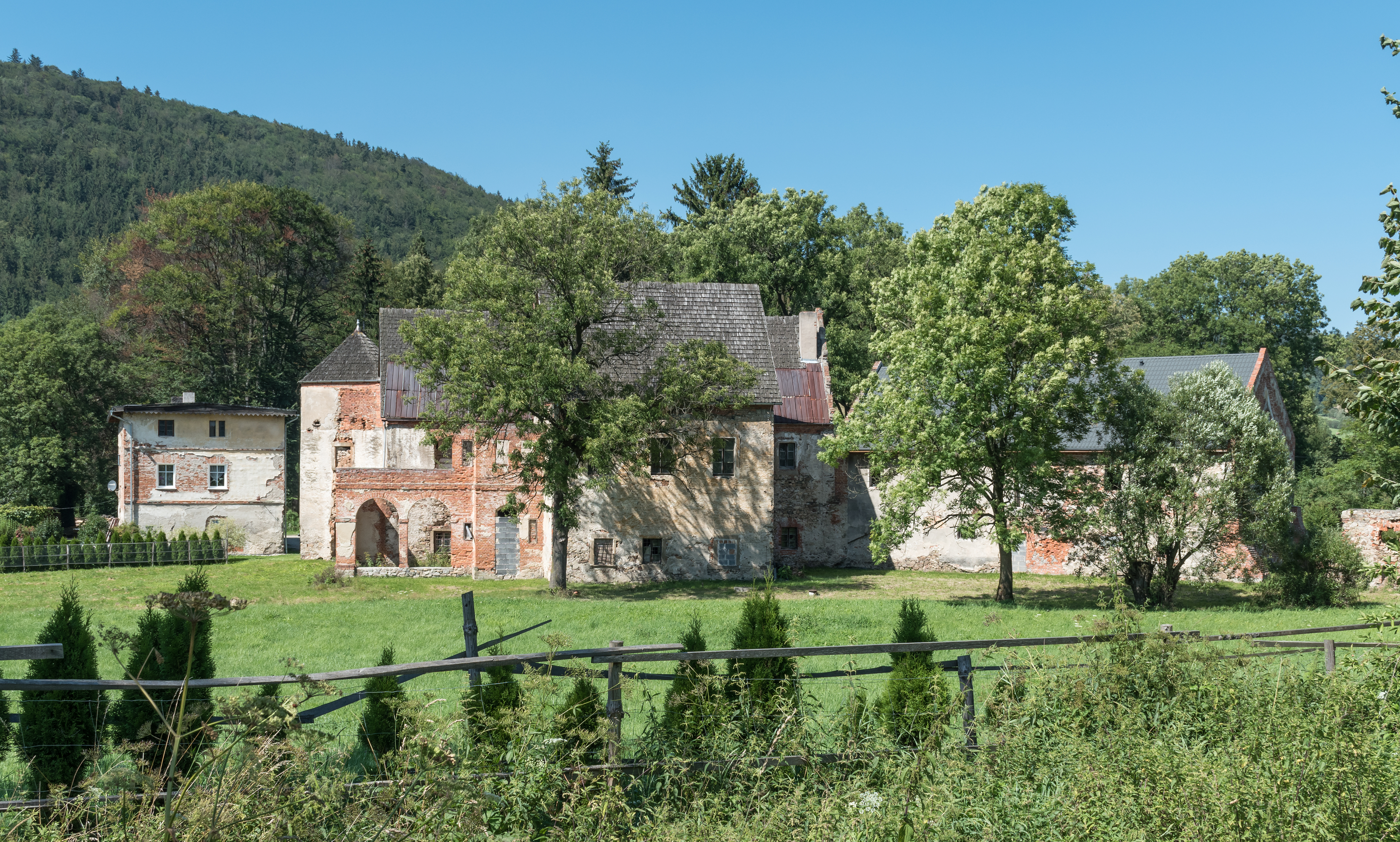 Manor in Radochów